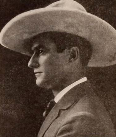 American actor Tom Mix, on page 17 of the January 19, 1918 Exhibitors Herald.